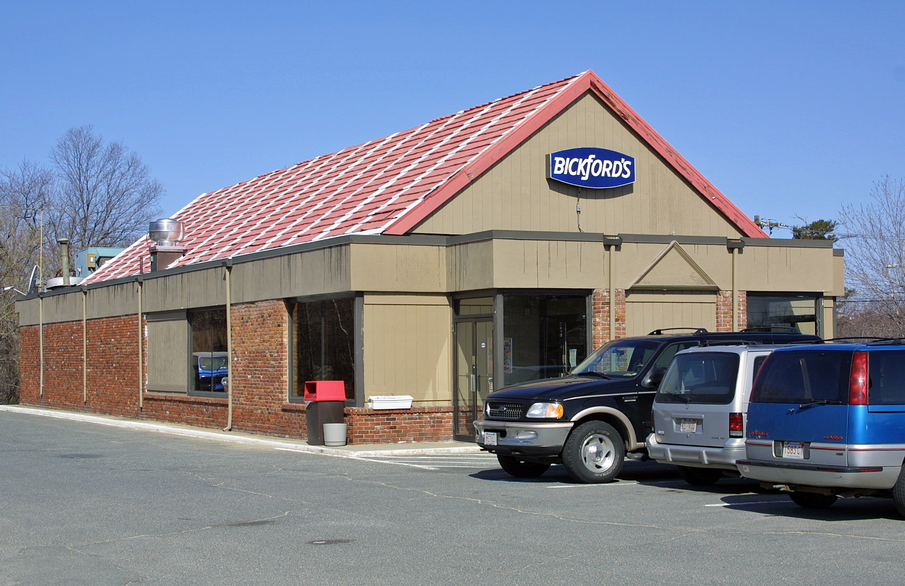 Bickfords Restaurant, Rt. 1 Saugus, Massachusetts - April, 2001